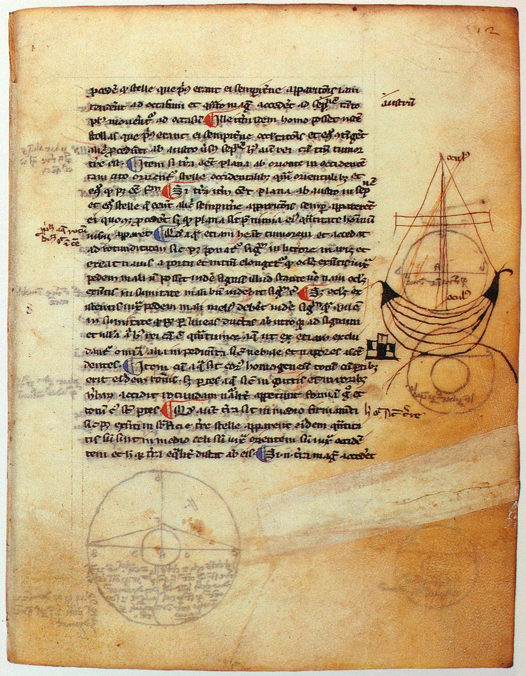 A page of a medieval mathematical textbook in the manuscript Vatican City, Biblioteca Apostolica Vaticana, Pal. lat. 1400, fol. 12r.